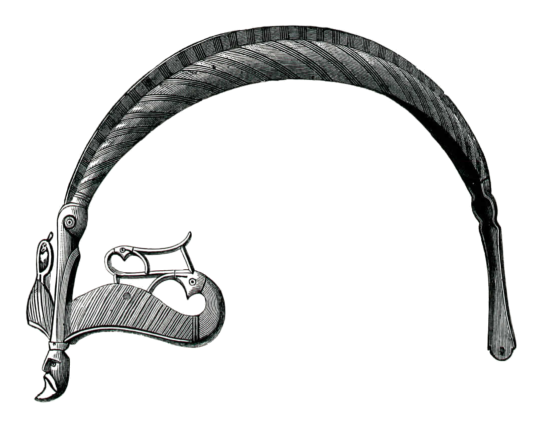 Drawing of the crest and eyebrows of the Vendel 1 helmet